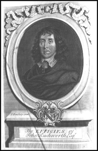 John Rushworth (c1612-1690)